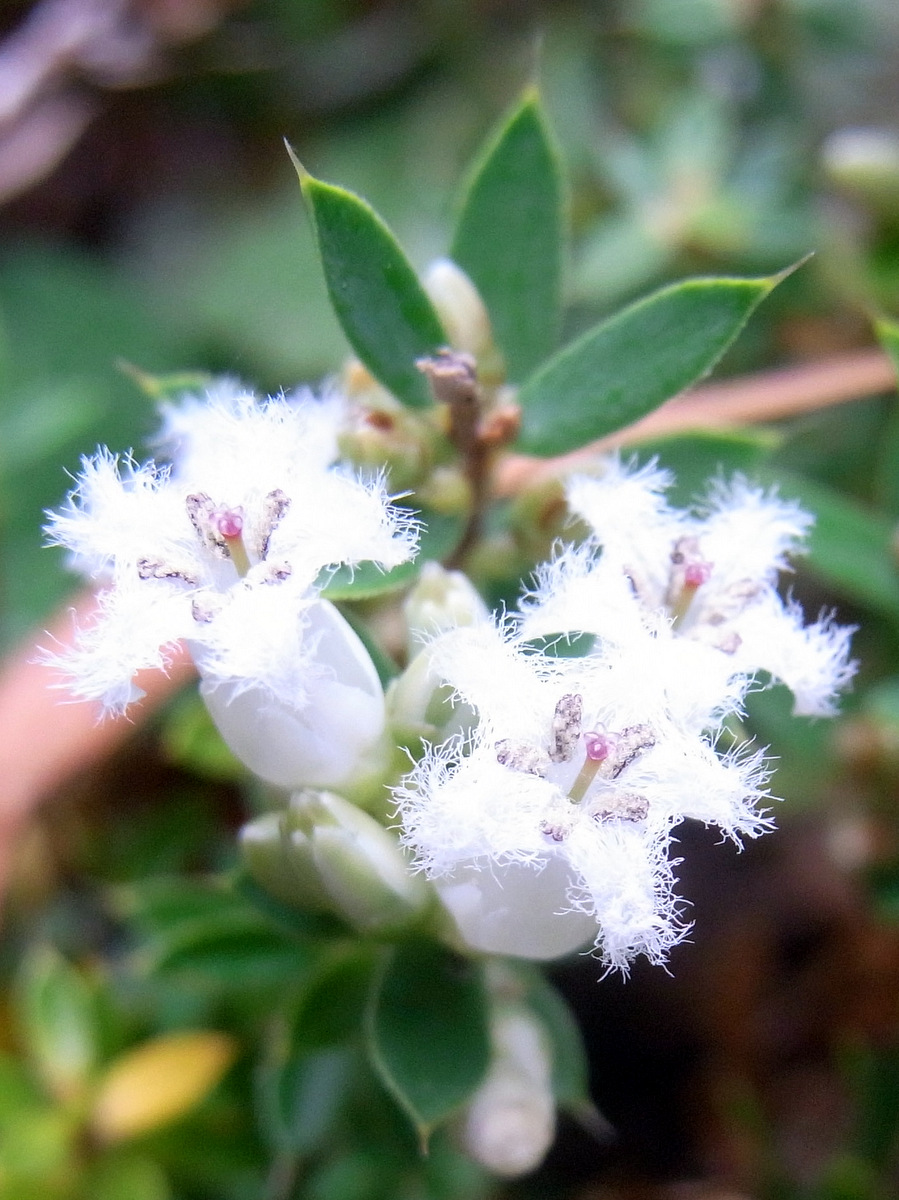 Pentachondra pumila Hobart Botanic Gardens